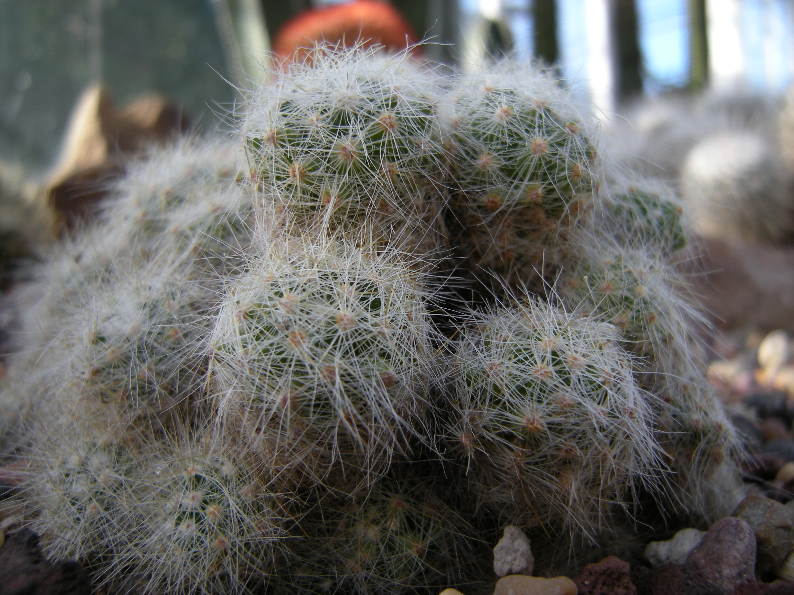 Mammillaria bamuii. Photographed at Volunteer Park Conservatory, Seattle, Washington.